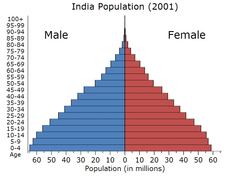 2001 population pyramid of India, from UN estimates, World Population Prospects: The 2012 Revision